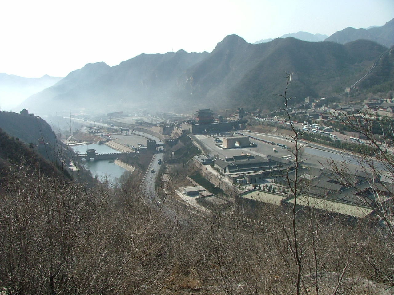 View from the Great Wall: Smog coming out off Beijing to the mountains